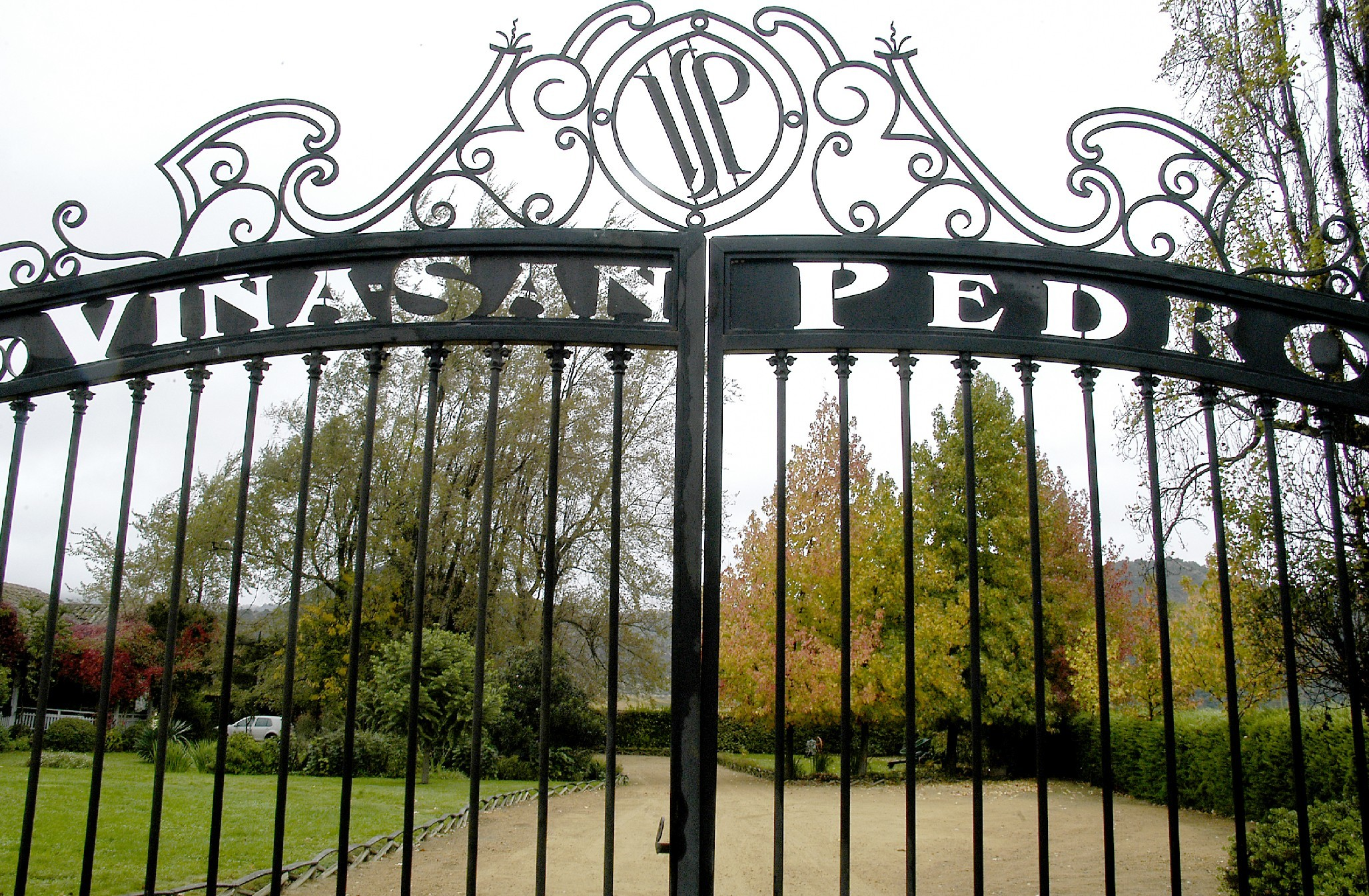 San Pedro was founded in the year 1865 and it's one of the main wineries in Chile